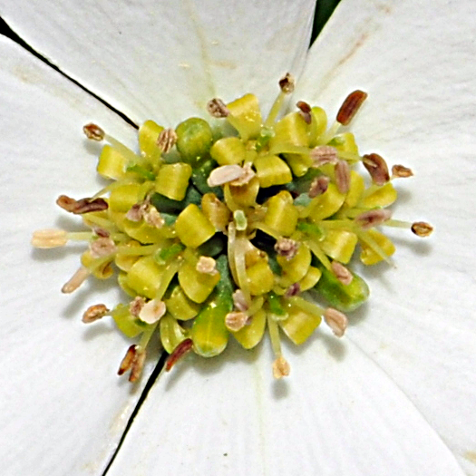 Close-up photo of dogwood flowers